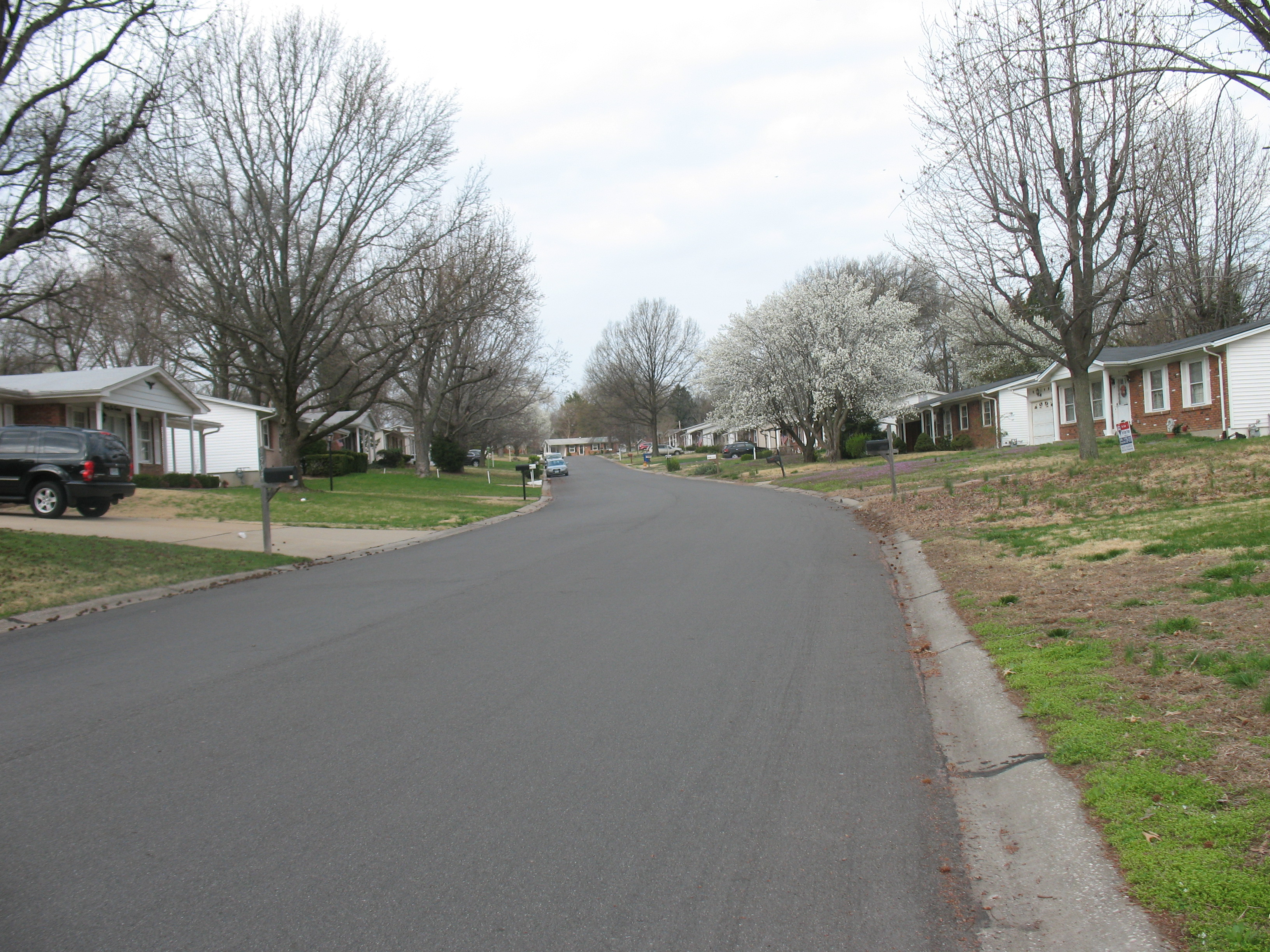 Tealridge Drive, Sappington, MO, USA